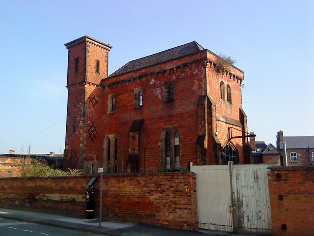 Old Pumping Station, The Ropewalk, Nottingham, Data from Geograph: Description: A brick-built waterworks pumping station in the Early English style, with brickwork laid in English bond with diaper work, stone lancet windows, square corner tower, buttresses and corbelled parapet. Built by Thomas Hawkesley in... more ICBM: 52.95513488105, -1.1613317491241 Location: (about 1 km from) near to Nottingham, Great Britain.